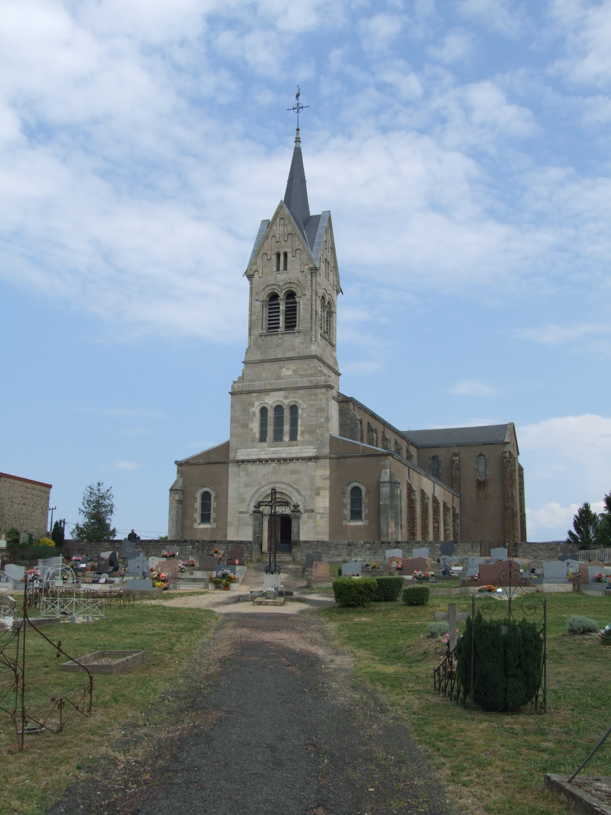 Saint-Alban churche, Lormes, Burgundy, FRANCE